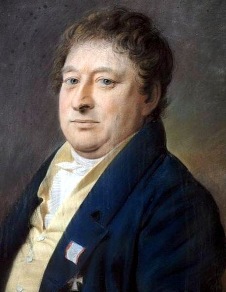 Painting of the pharmacist Gottfried Becker (1767-1845)